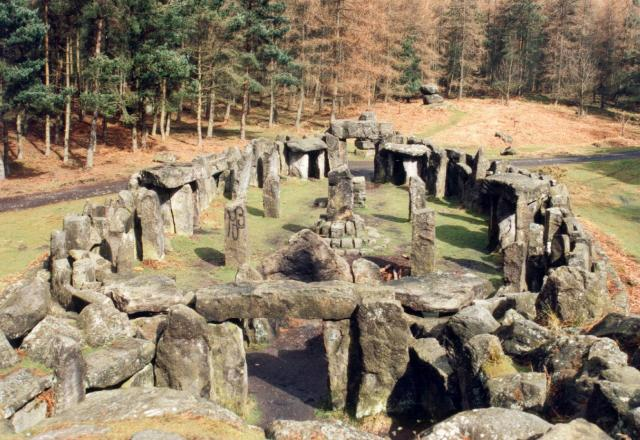 Druids Temple near Ilton. This folly was created by William Danby (1752 - 1833) to relieve some of the unemployment in the area.